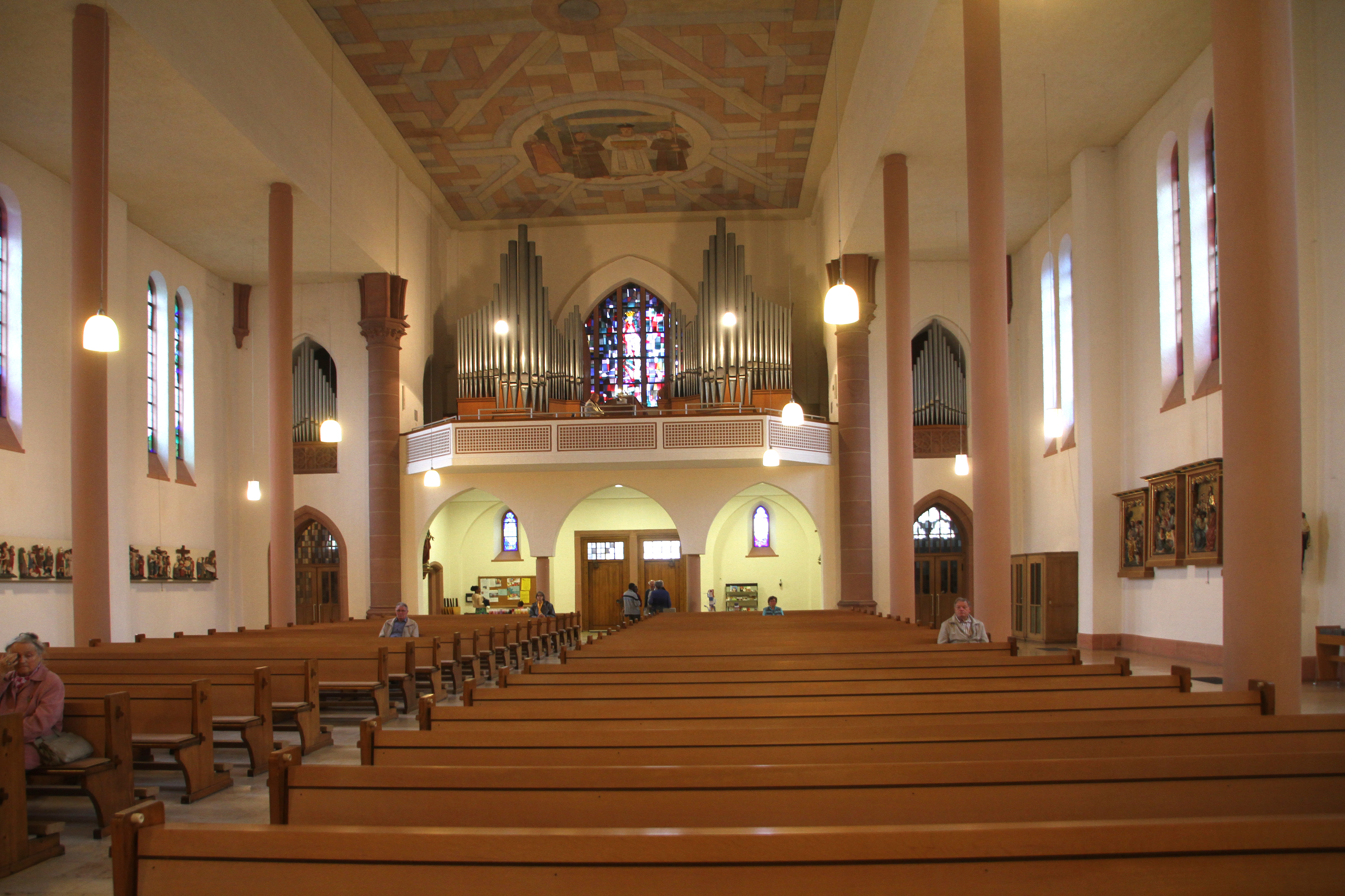 Church of Saint Pirmin in Pirmasens, interior decoration.